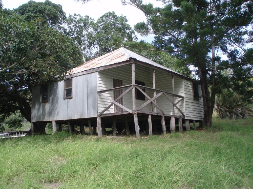 Leeke Homestead from West (2009)